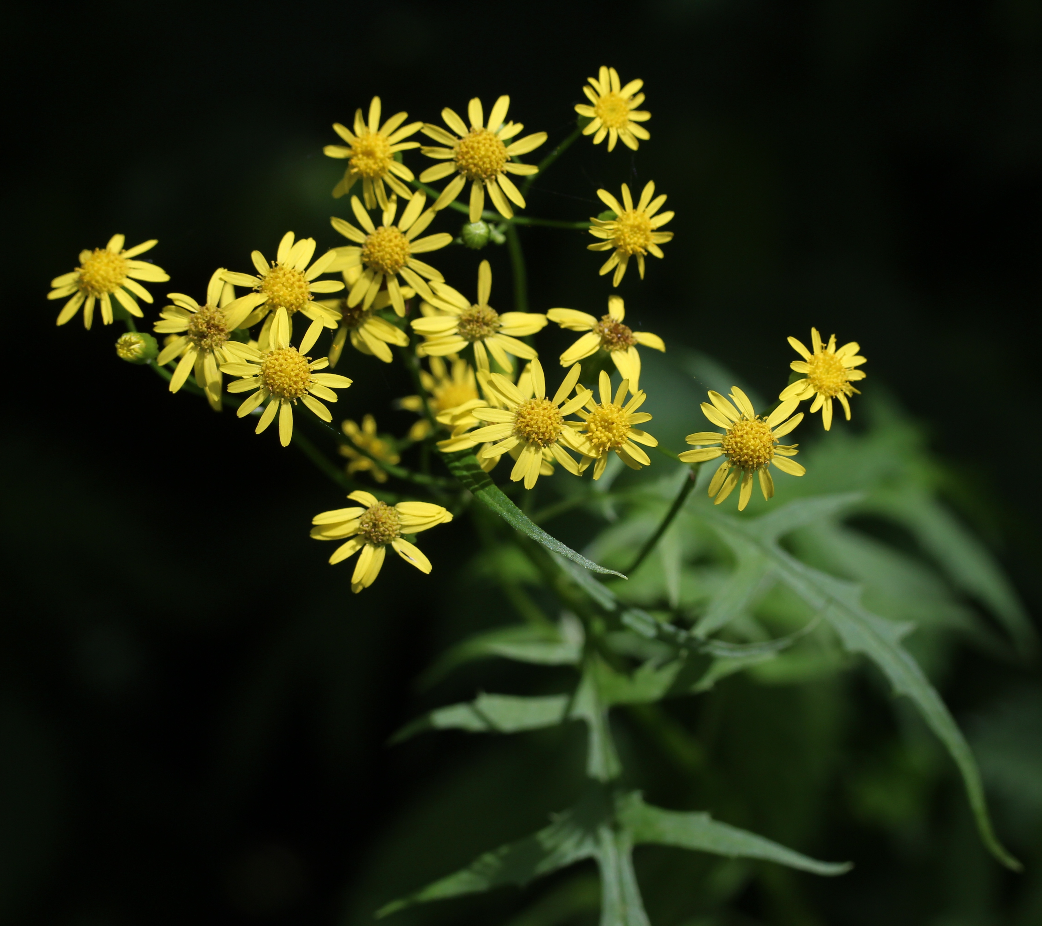 Nemosenecio nikoensis, in Mount Kohide, Nakatsugawa, Gifu prefecture, Japan.